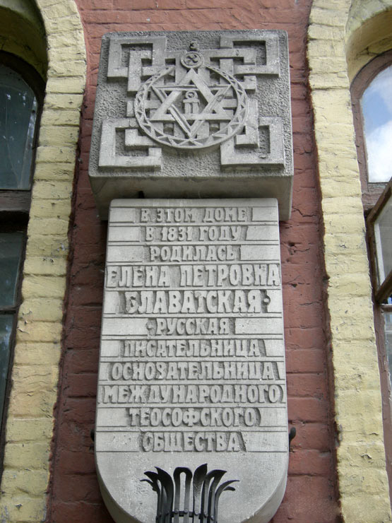 Theosophist symbols above plaque for Madame Blavatsky's birthplace(?), Dnepropetrovsk, Ukraine, 1831